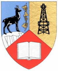 Coat of arms of Prahova County, Romania.